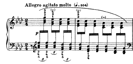 Excerpt from Liszt's Transcendental Etude 10